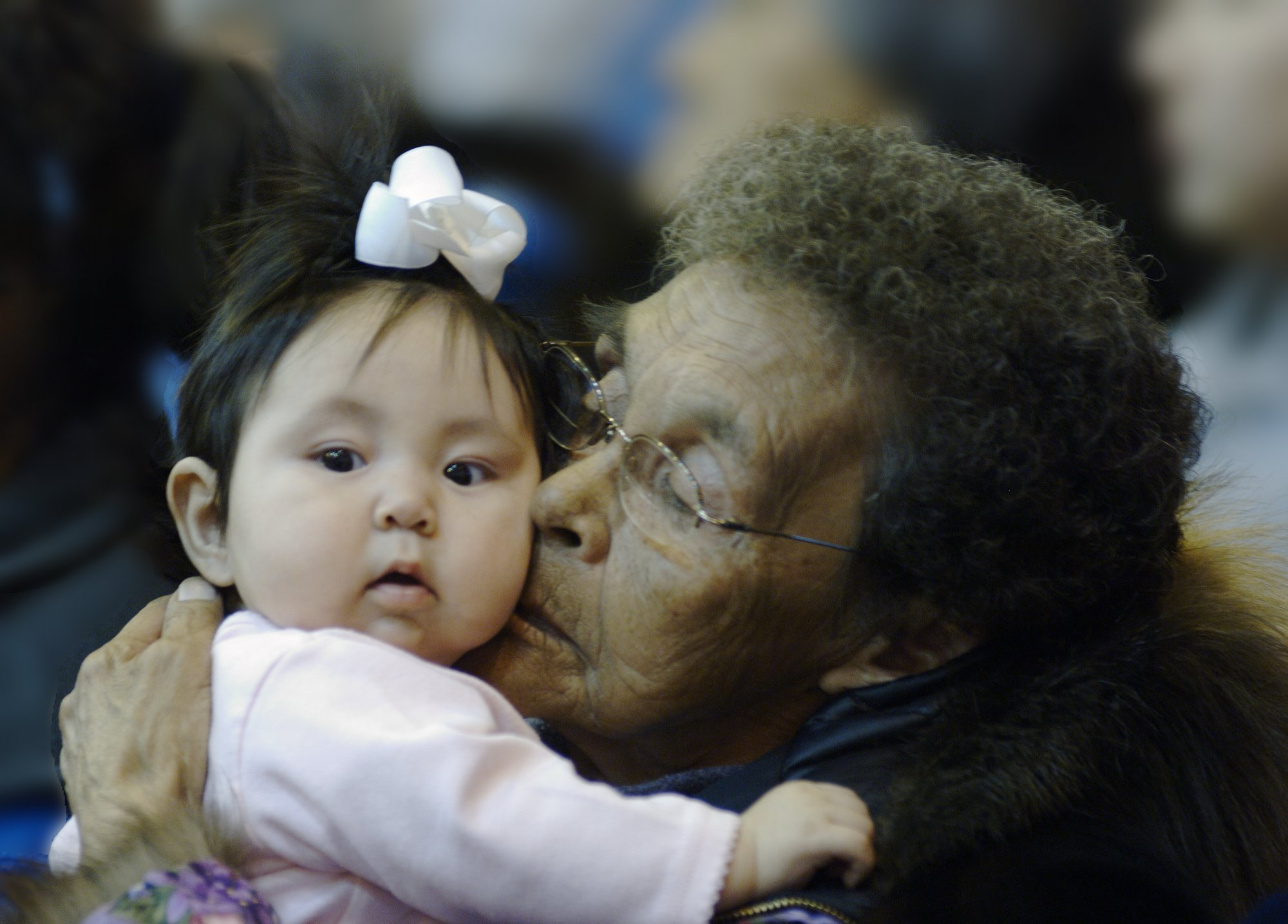 A Genuine "Eskimo Kiss". This picture was taken during a Nalukataq dance at Barrow Alaska